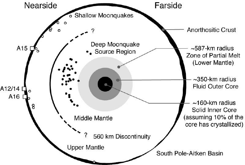 Schematic diagram showing the internal structure of the Moon. Radii for the inner core, outer core, and zone of partial melting are not well constrained, and are here estimated. While moonquakes have been located only on the nearside, it is probable that farside quakes exist as well, but that they could not be located because of the nearside distribution of seismometers.